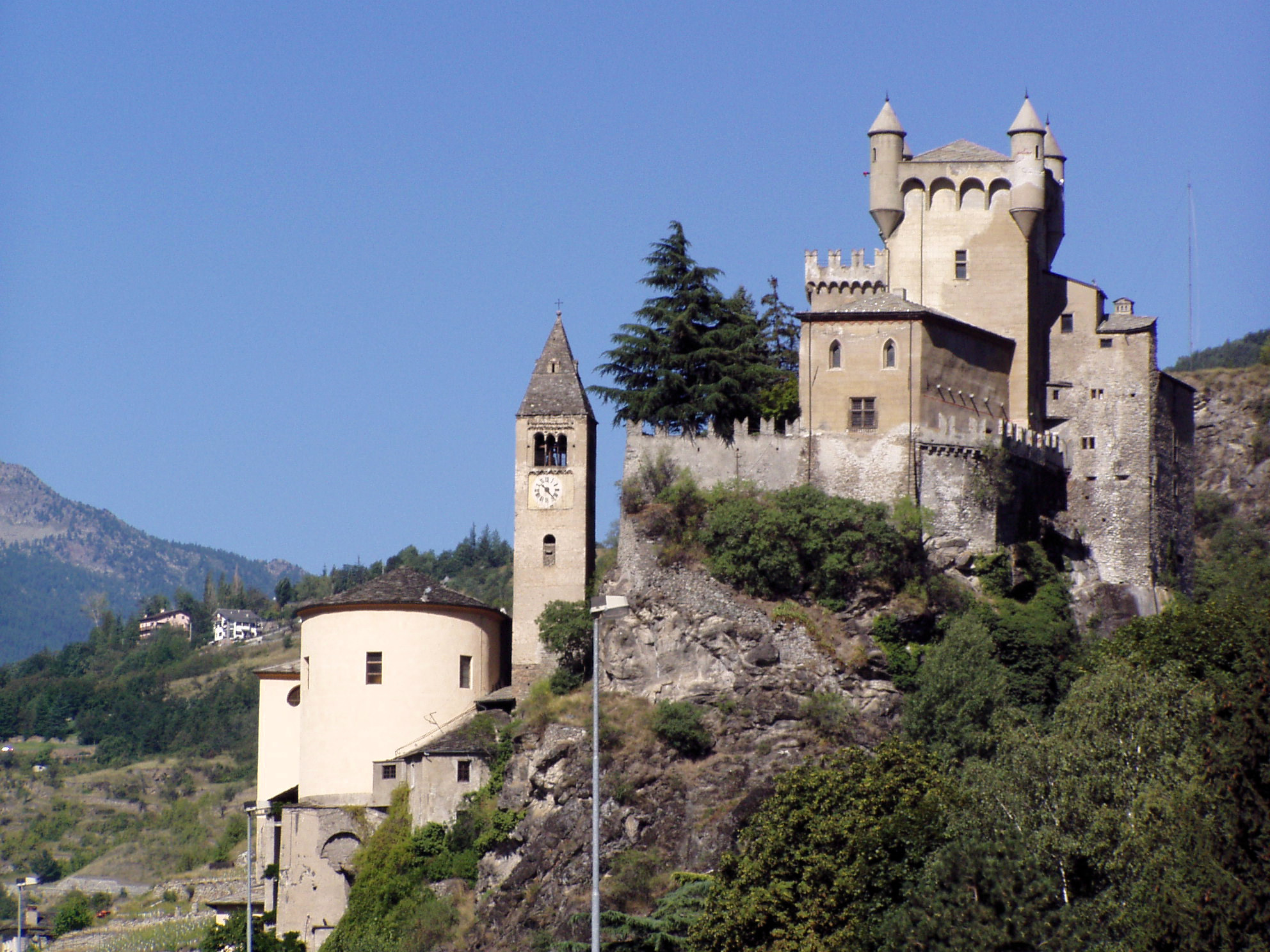 Castello di Saint-Pierre, Valle d'Aosta, Italy.